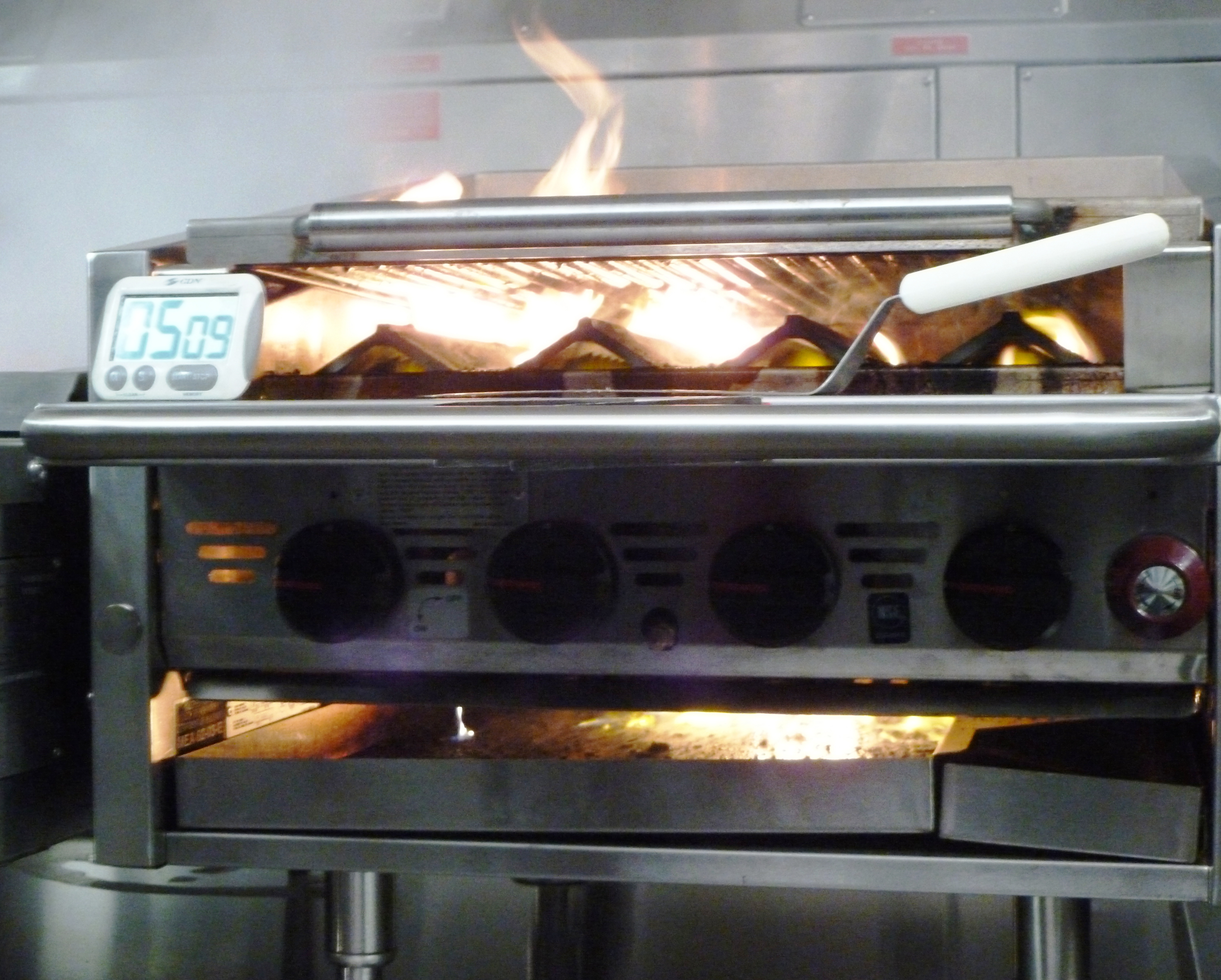 Charbroiler-operation-flareup+2ndary fires